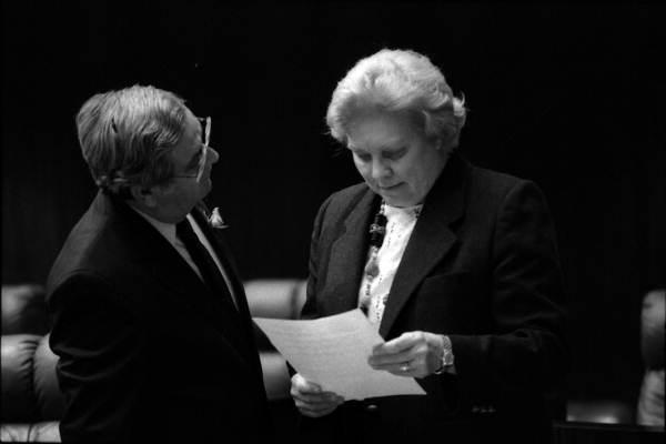 Mary R. Grizzle and man confer on the legislature floor - Tallahassee, Florida.